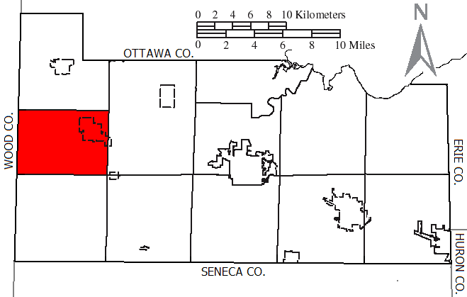 Made by the US Census and modified by User:Frank12